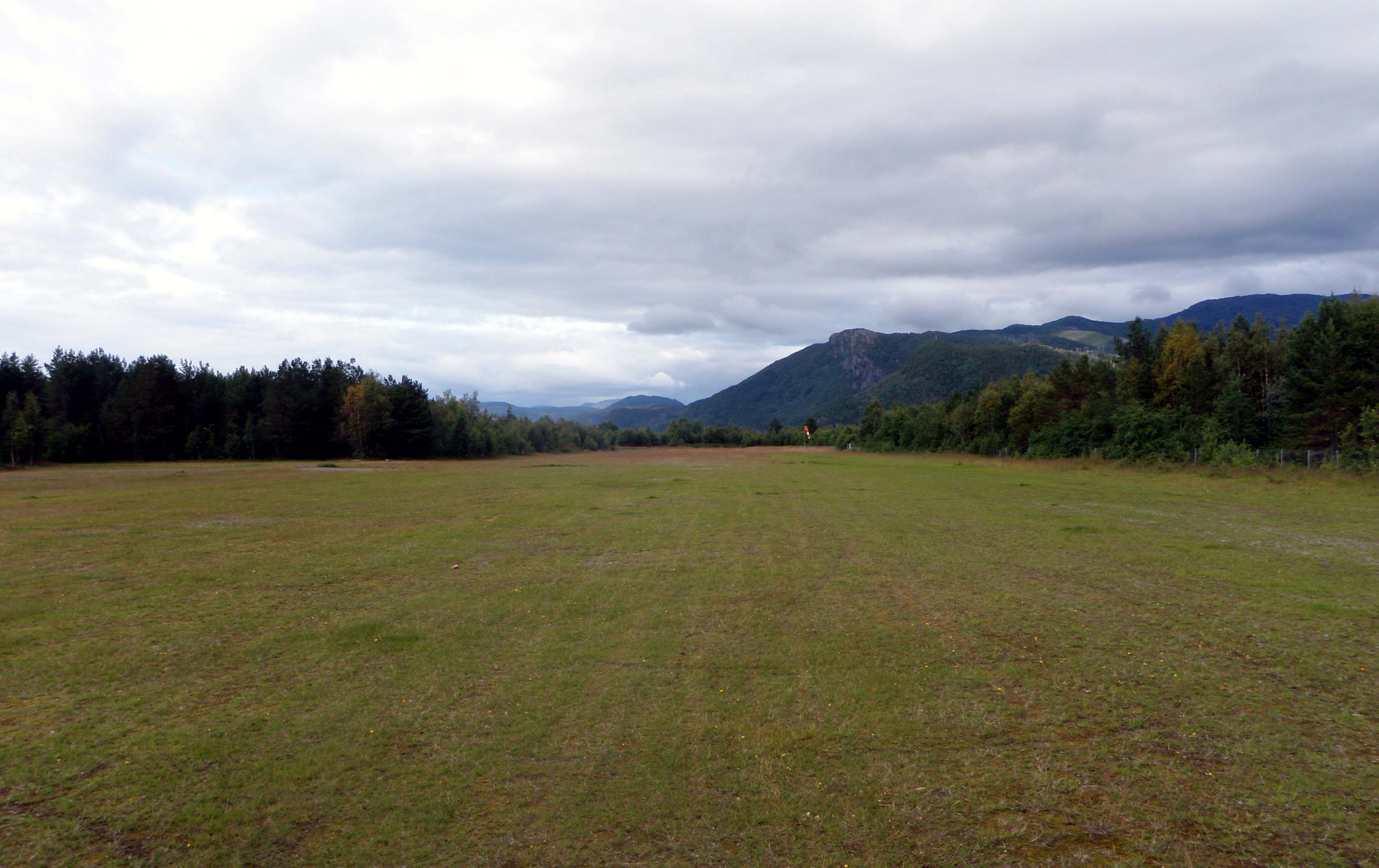 North view of the grass runway of Rognan Airport in the village of Rognan in Saltdal, Nordland, Norway.